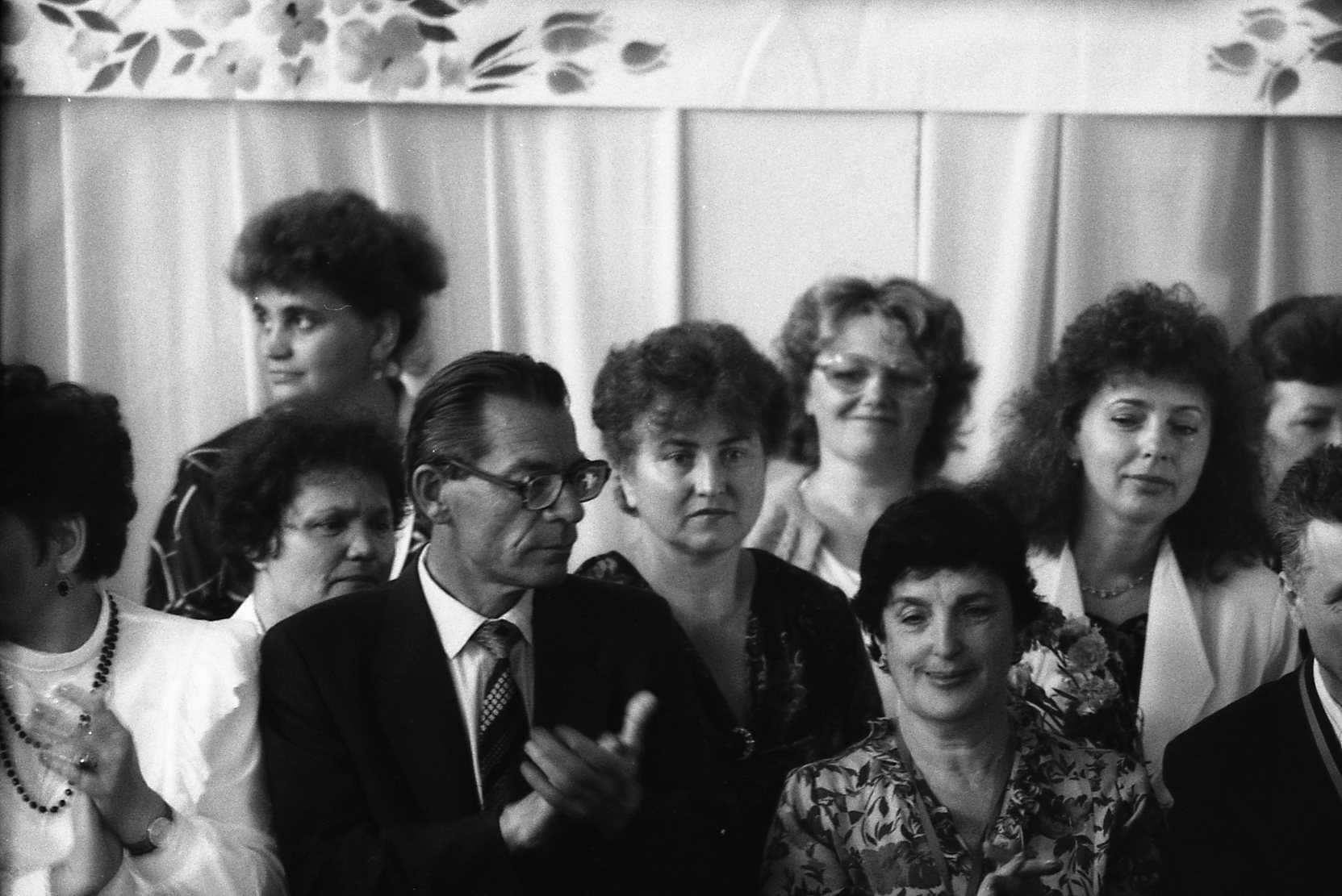 Leonid Frantsevich Chiritsa, Headmaster of 344 School, Leningrad, USSR (1988)